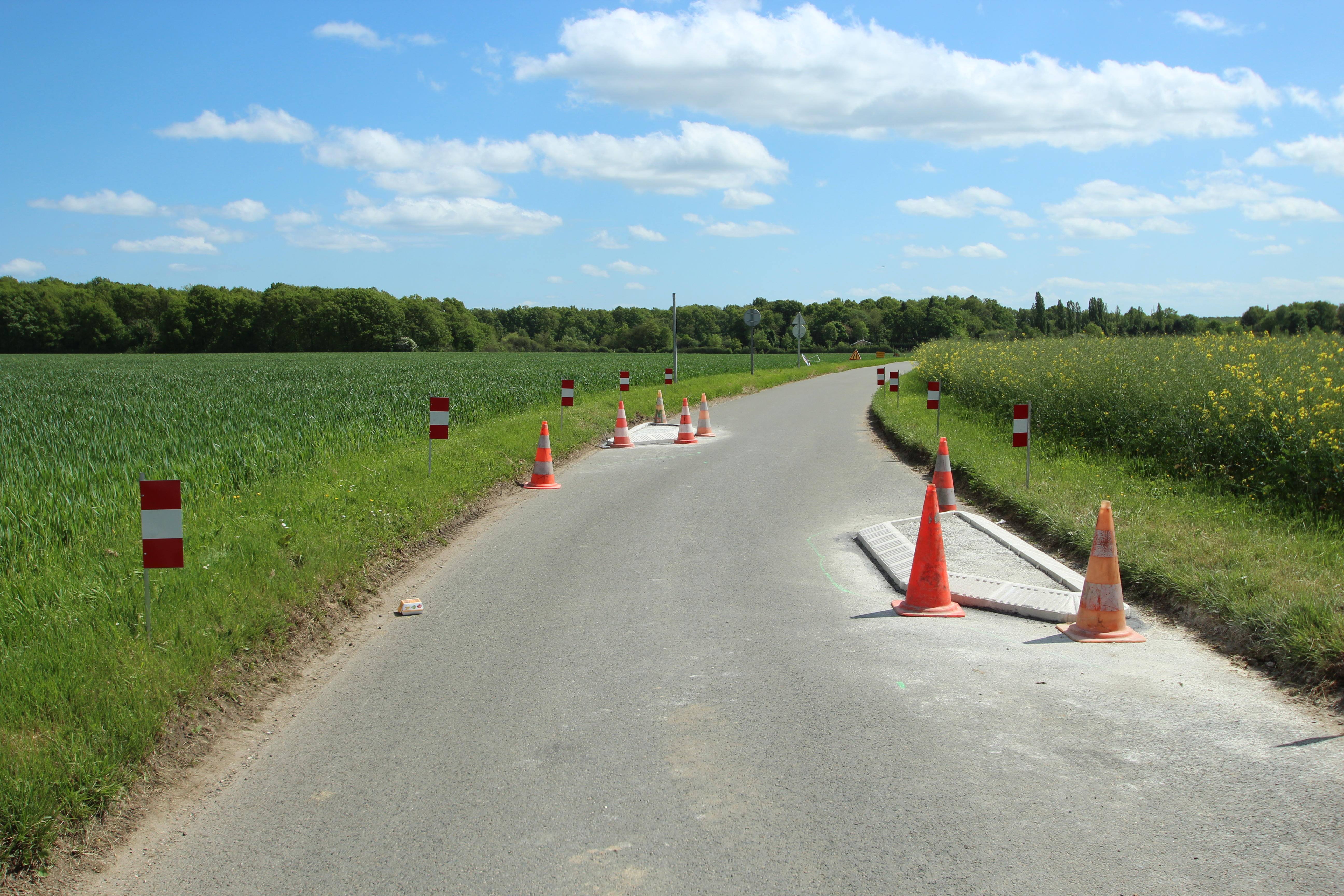 View of the Romainville hamlet on the Port Royal des Champs road in Magny-les-Hameaux, France.